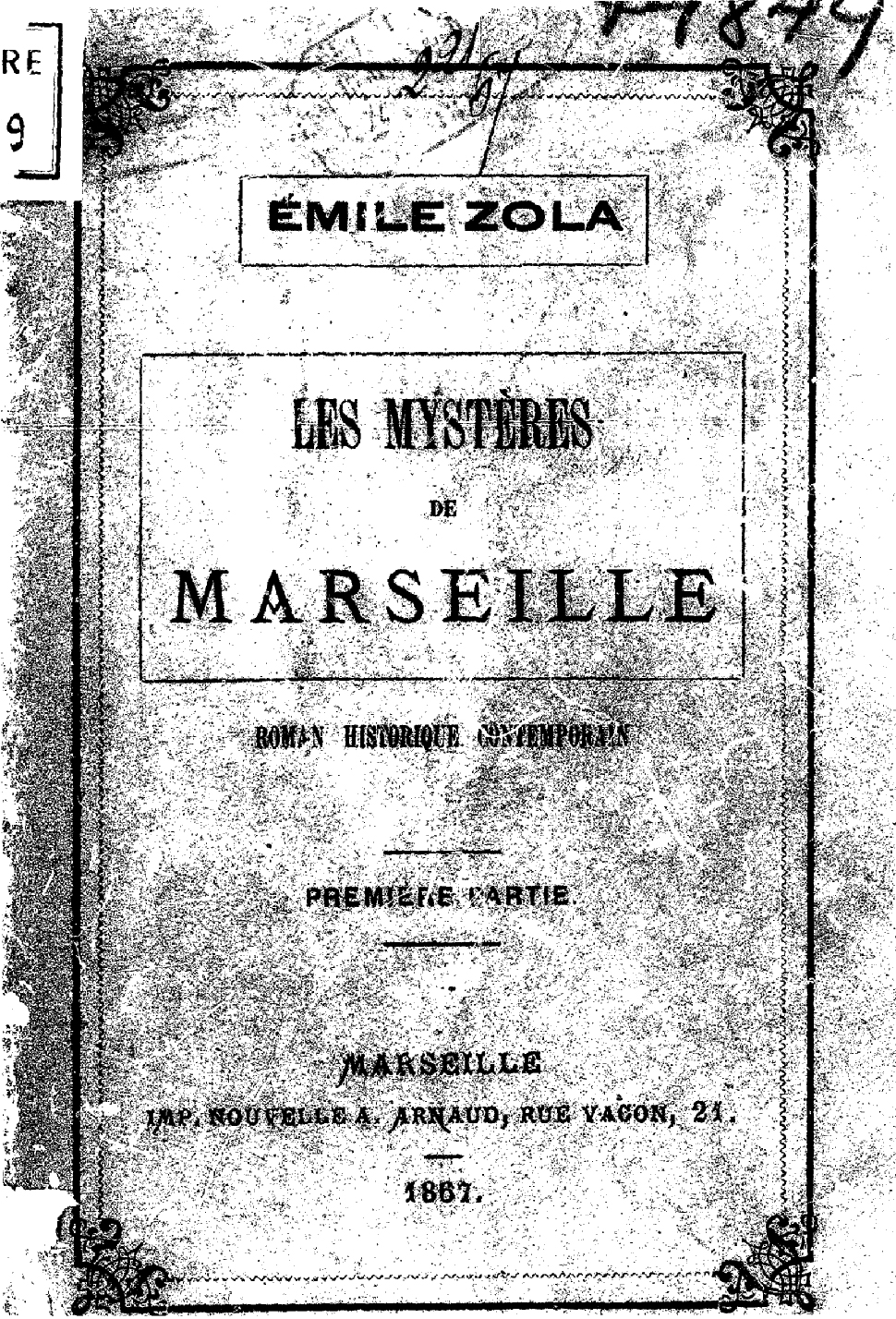 Les Mystères de Marseille. Marseille: Imp. Nouvelle, A. Arnaud, Éditeur, rue Vagon, 21, 1867 by Émile Zola (1840-1902)